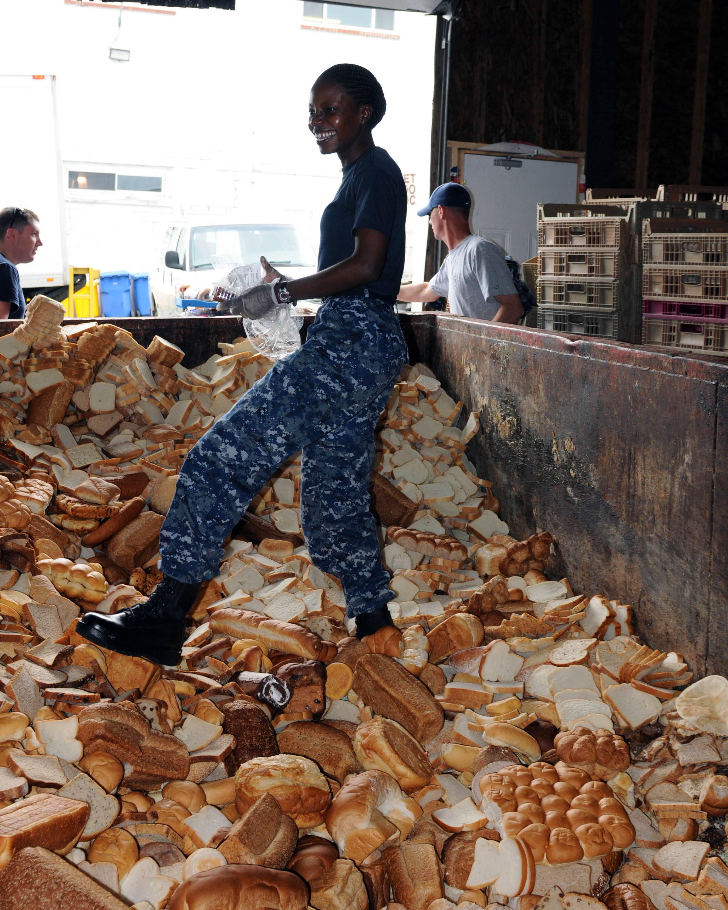 HALIFAX, Canada (June 26, 2010) Seaman Fridah N. Kelley wades through a dumpster of expired bread that will be given to local farmers to use as compost during a community service project at the Feed Nova Scotia food bank. Wasp is participating in the Canadian Naval Centennial and International Fleet Review Week from June 25 to July 2. Sailors and Marines aboard Wasp are participating in various community service and cultural events. (U.S Navy photo by Mass Communication Specialist 3rd Class Andrew M. Rivard/Released)